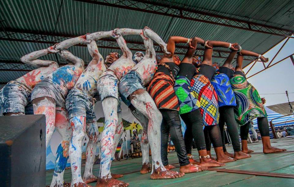 This is an image with the theme "Play" from: Democratic Republic of the Congo